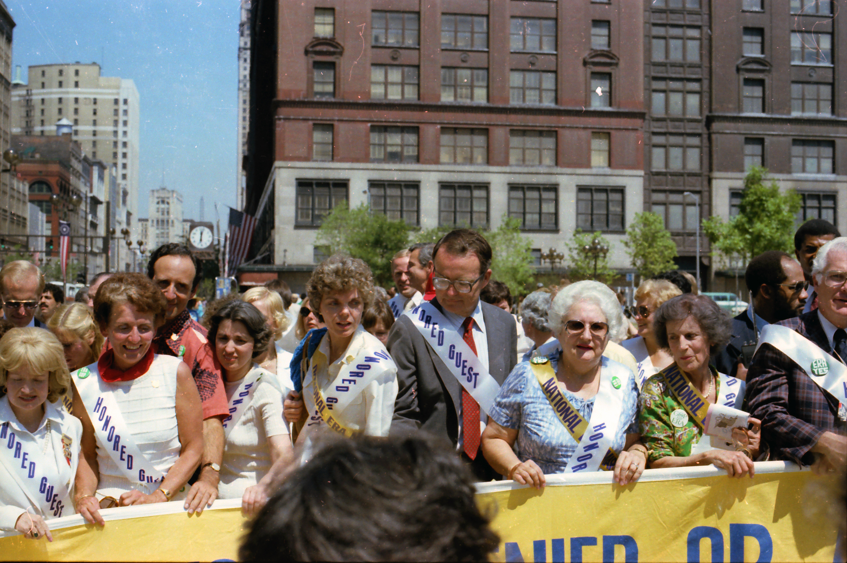 Pro-ERA March during 1980 Republican National Convention (Detroit, Michigan). Photo by Magi Mooney.